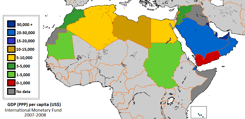 Arab League countries by GDP projected for 2007-2008